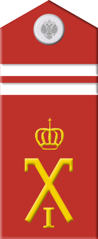 Rank insignia of the Imperial Russian Army until 1917, here "Corporal". Particularity: Emblem – Narva infantry regiment.